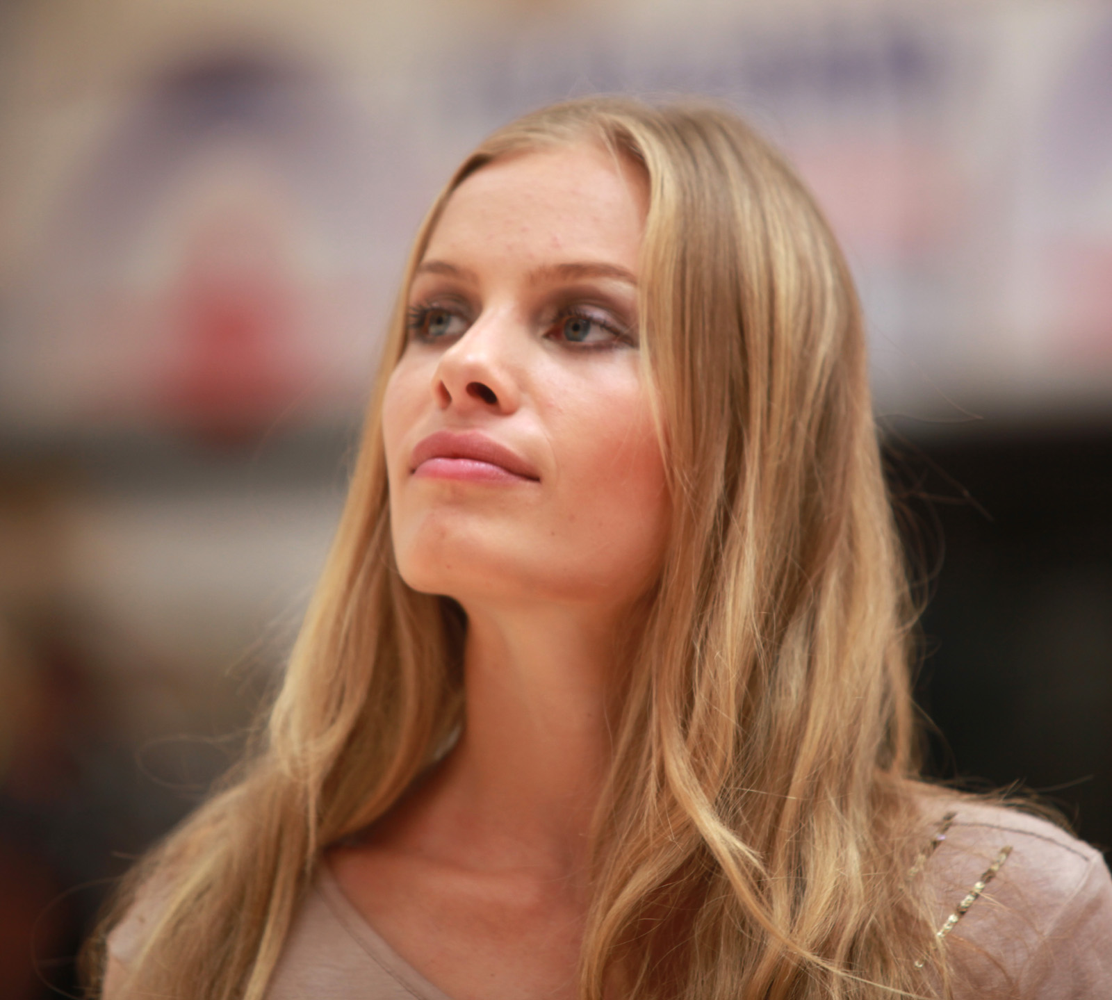 Jana Beller, "Germany's next Topmodel", on August 20th, 2011 in Ehingen (Germany).